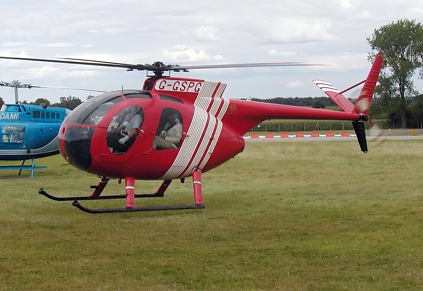 Hughes 500 Model 369HS (G-GSPG, built 1976) at Kemble Airfield, Gloucestershire, England, just lifting off.